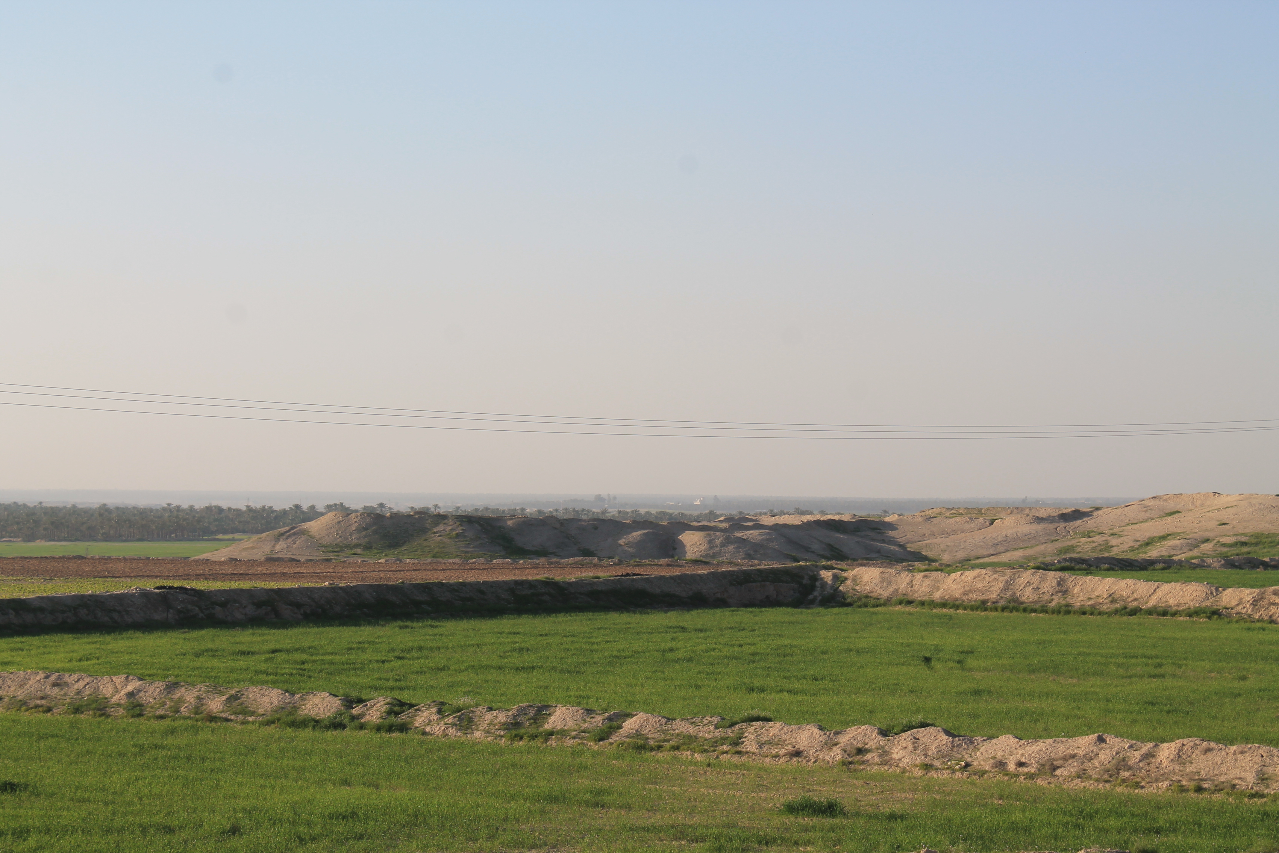 محوطه باستانی محمدآباد